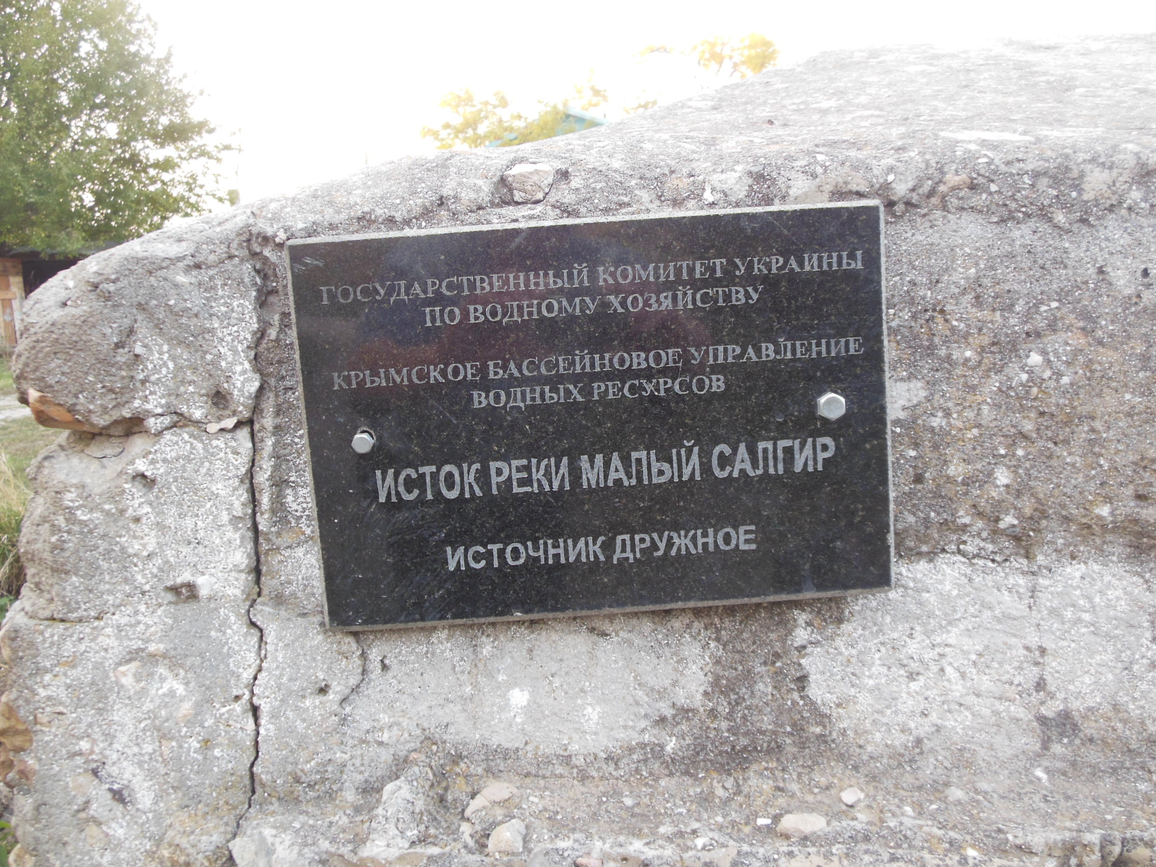 Gefer-Berdy Chokrak spring. Maliy Salgir river head, Crimea.